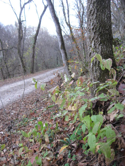 Roadside habitat of Ovate-leaved Catchfly (Silene ovata) on the Sylamore District of the Ozark National Forest, Arkansas, USA. Nov. 11, 2011.